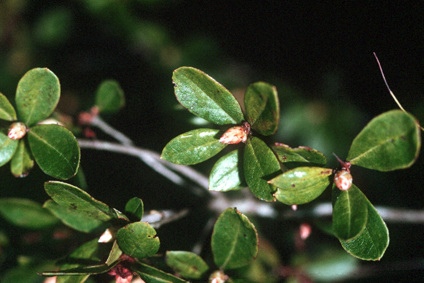 Rhododendron viscosum (L.) Torr. - swamp azalea